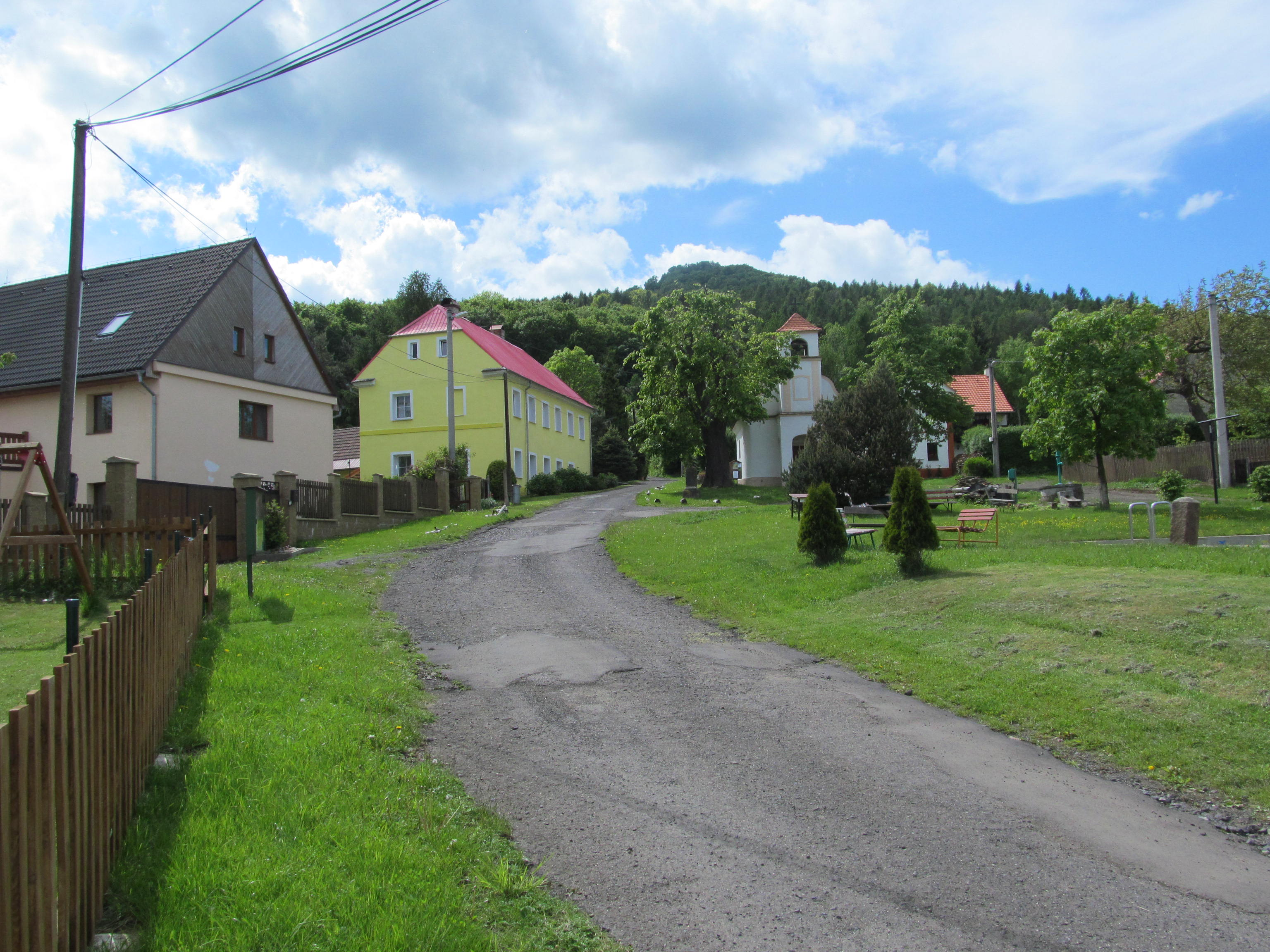 Village square in Kletečná